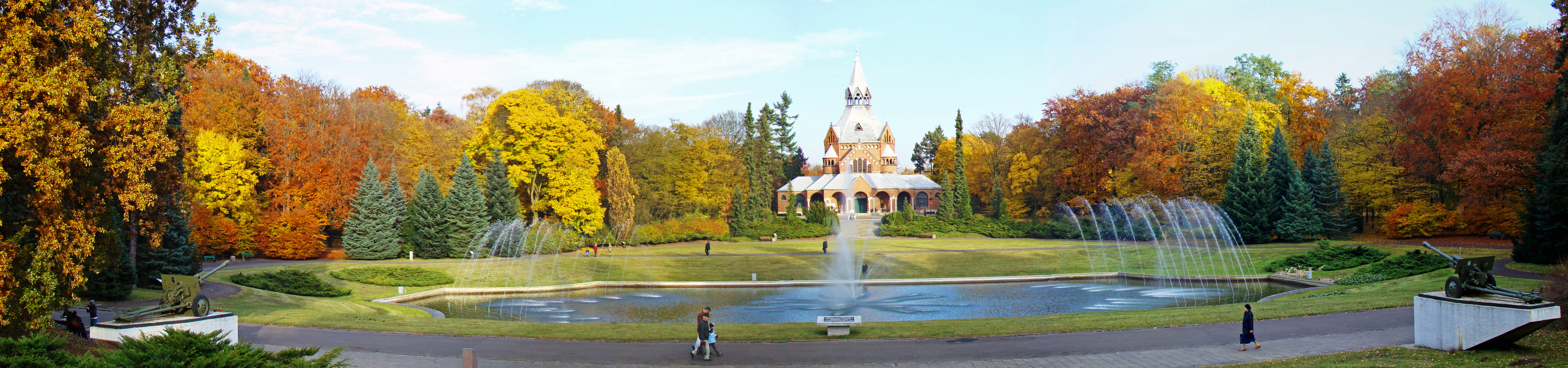 Central Cemetery, Szczecin, Poland